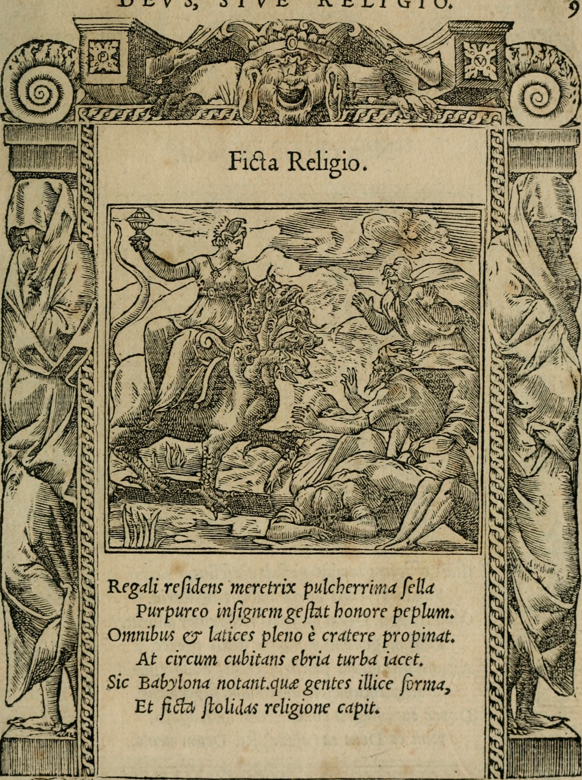 Title: Emblemata Andreae Alciati ... Year: 1548 (1540s) Authors: Alciati, Andrea, 1492-1550 Rouillé, Guillaume, 1518-1589, printer Subjects: Emblem books Publisher: Lugduni : Apud Gulielmum Rouillium ... Text Appearing Before Image: 3 I)EV5, SIVE RELIGIO* Text Appearing After Image: !ifilTiIl Rf^^Ii refulem meretrix pulcherrnna feUaPurpureo infgnemgefht honore peplum* Omnibii^ cr latices pleno e cratere propinat*At circu/m cubitans ebria turba iacet, Sic Babylona notantM^Uddgentes iUice fcrma,Et fi6h JIoUlUs religione capit* ife^^!2^:g;^^^/^^^-/c^^^^/ggg7^.^^;iV^^ ,\te5, ^.fe/i:. ^ •i^^:-; D E V S, S I V E R E L I G I a